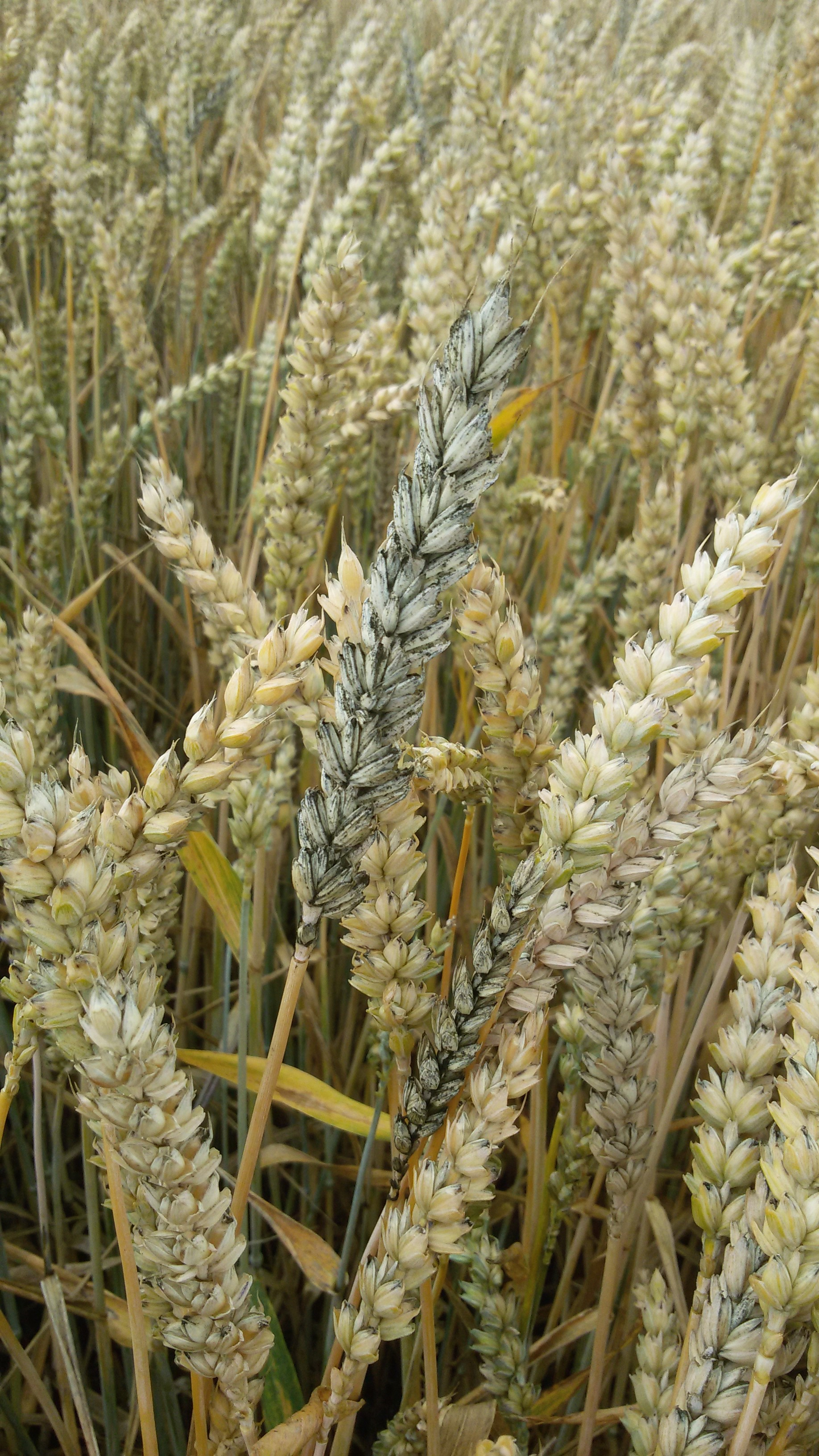 wheat ear with sooty mold